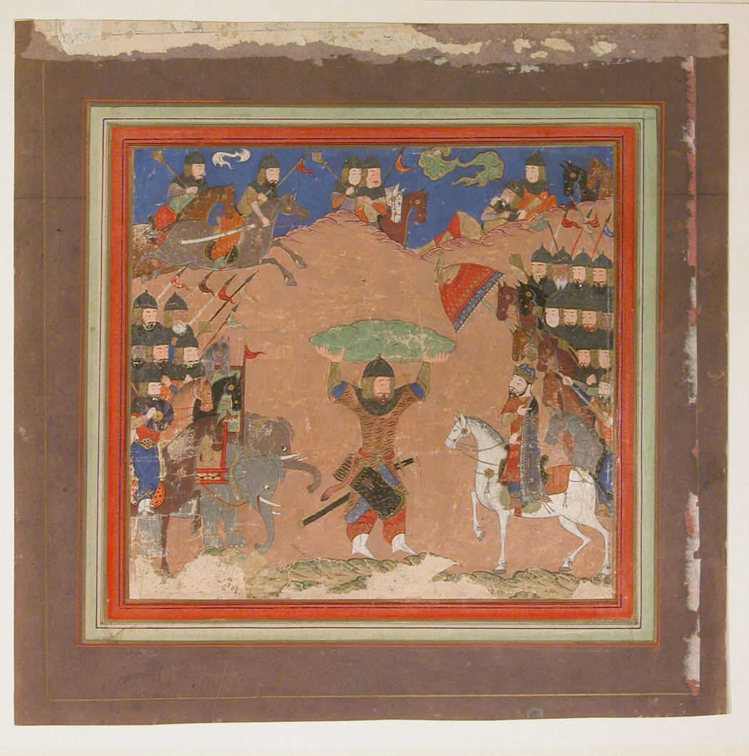 Folio from an illustrated manuscript; Codices